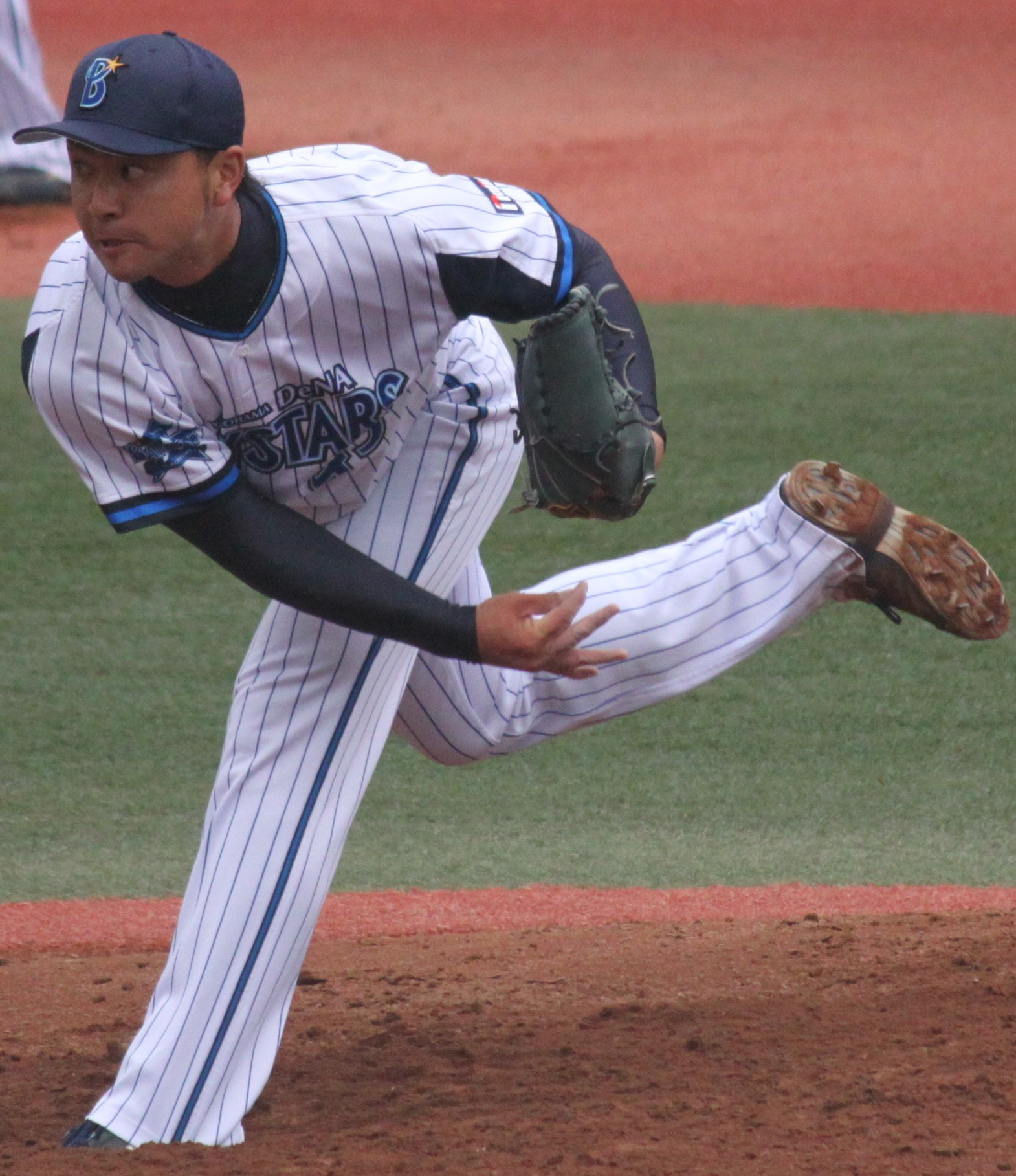 Tateki Abe, pitcher of the Yokohama DeNA BayStars, at Yokosuka Stadium.